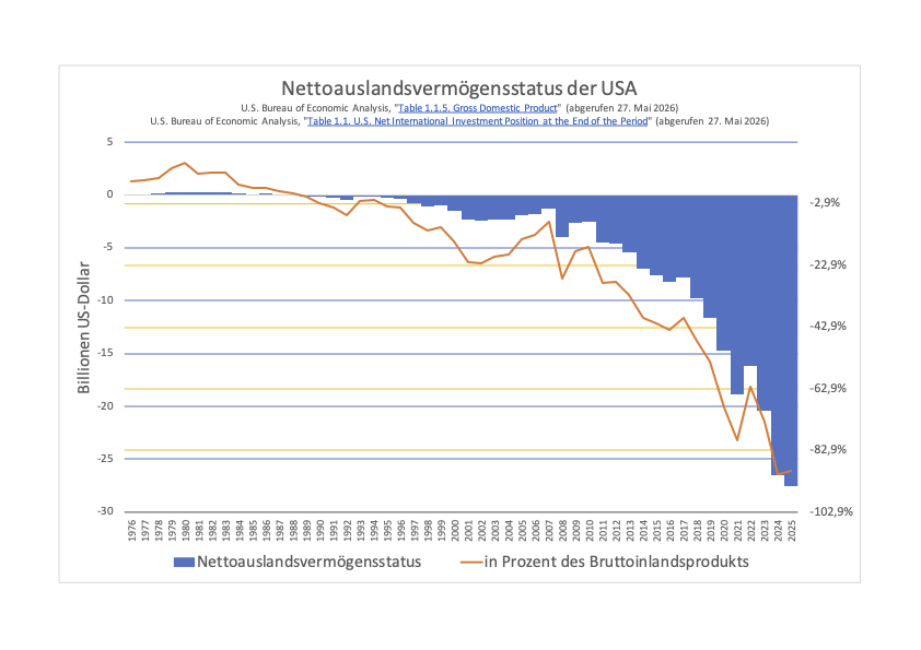 Current-Dollar and "Real" Gross Domestic Product, Annual, GDP in billions of current dollars, 12.22.16; Table 1.2. U.S. Net International Investment Position at the End of the Period, Expanded Detail, [Millions of dollars] NOTE: End of quarter positions begin in the fourth quarter of 2005.